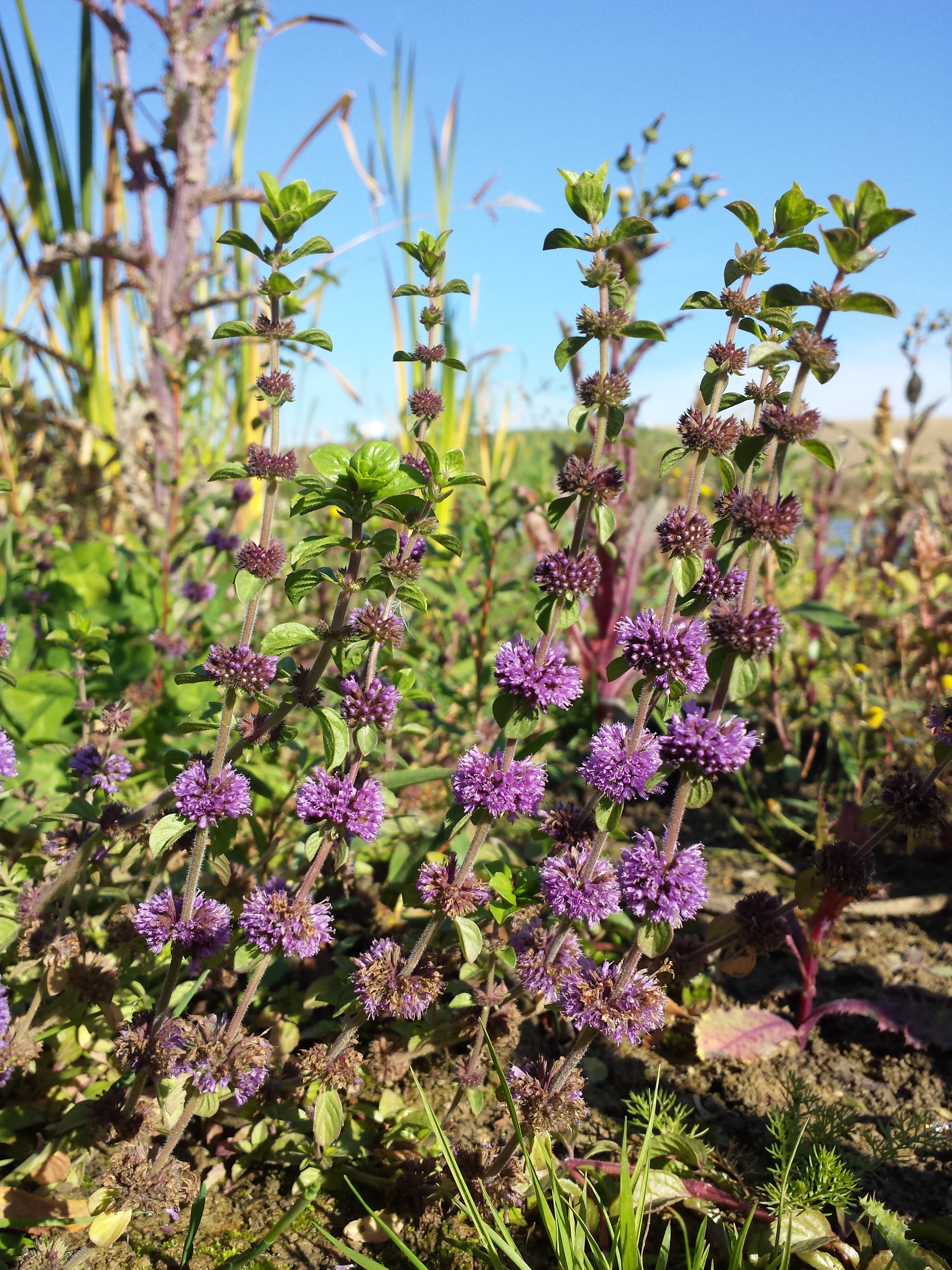 Habitus Taxonym: Mentha pulegium ss Fischer et al. EfÖLS 2008 ISBN 978-3-85474-187-9 Location: pond near Michelstetten, district Mistelbach, Lower Austria - ca. 250 m a.s.l. Habitat: shore of a pond